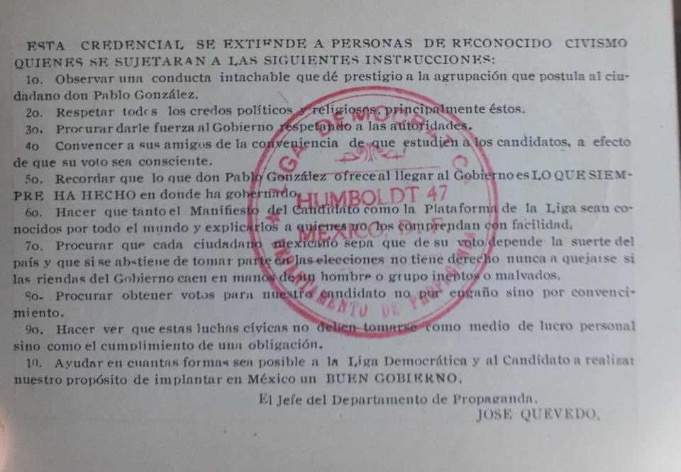 Liga Democrática Party Propaganda postulating Pablo González Garza as President of Mexico candidate in 1919